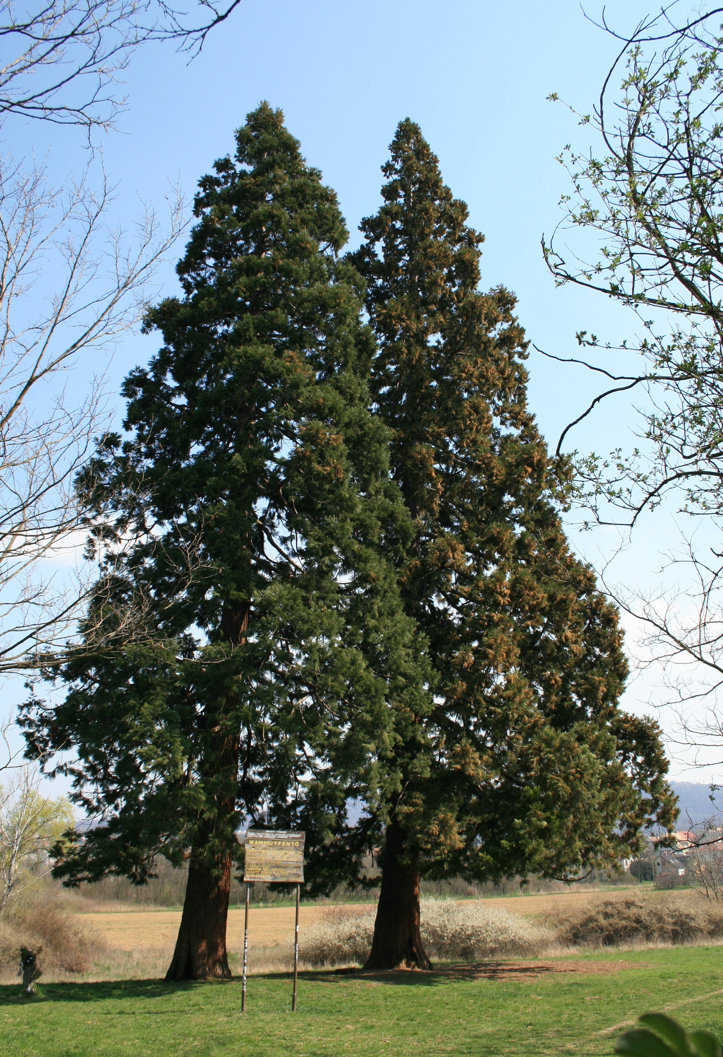 A pair of Sequoiadendron giganteum in Budakeszi, near Budapest, Hungary, planted in 1900 in a since that abandoned botanical garden.